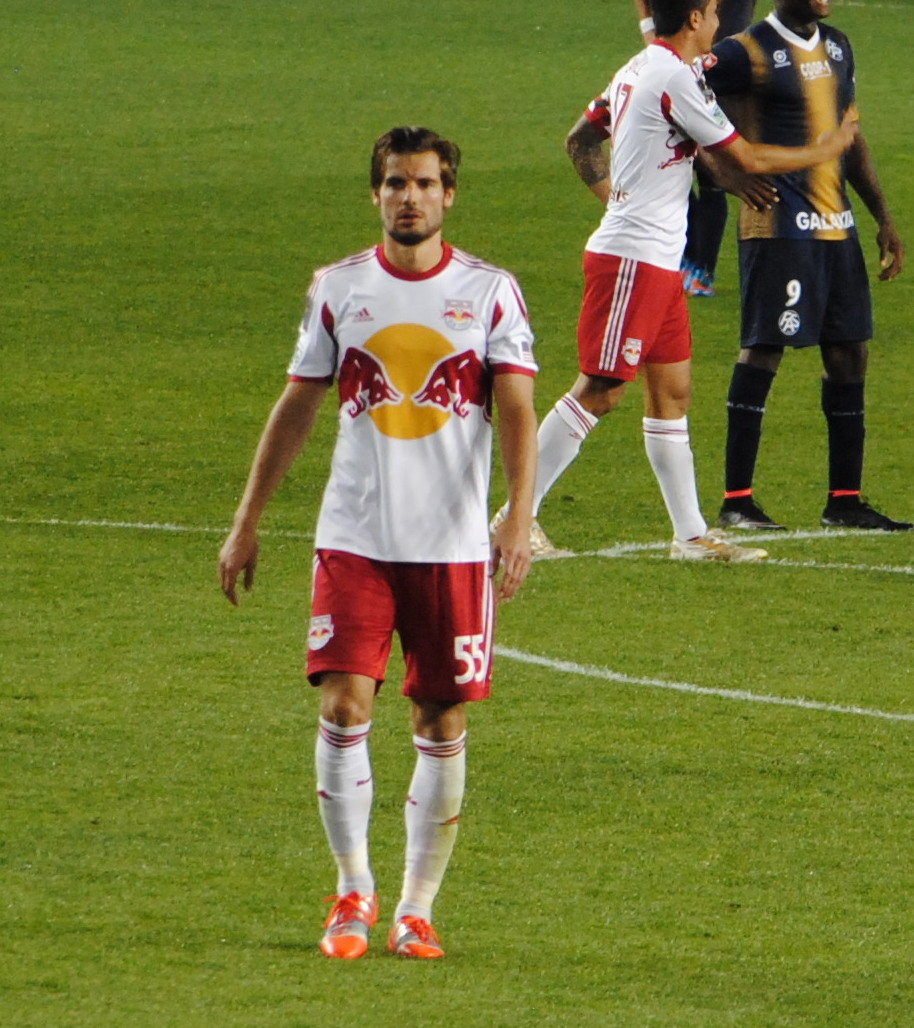 Damien Perrinelle